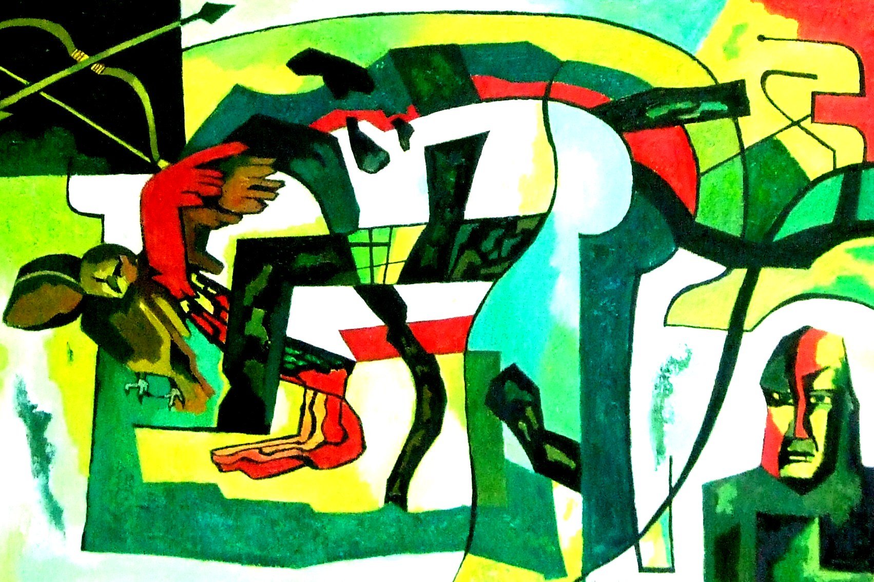 "Ancient Epics of Ancestors", 56.5 cm x 79.5 cm, oil on canvas, 2008